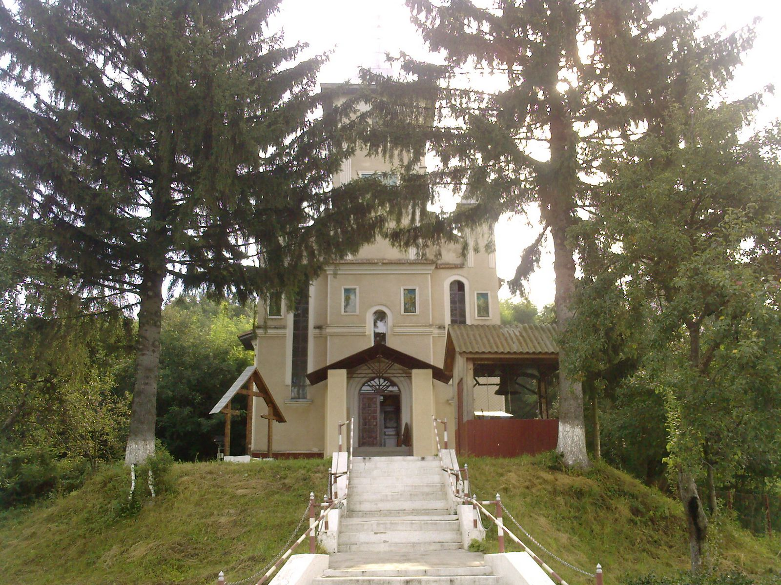 Ariusd, Covasna County, Romania, Orthodox Church